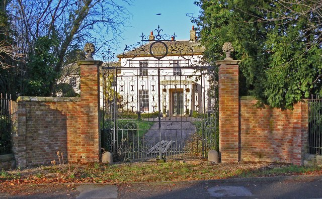 Claybrooke Hall In the small Leicestershire village of Claybrooke Parva.